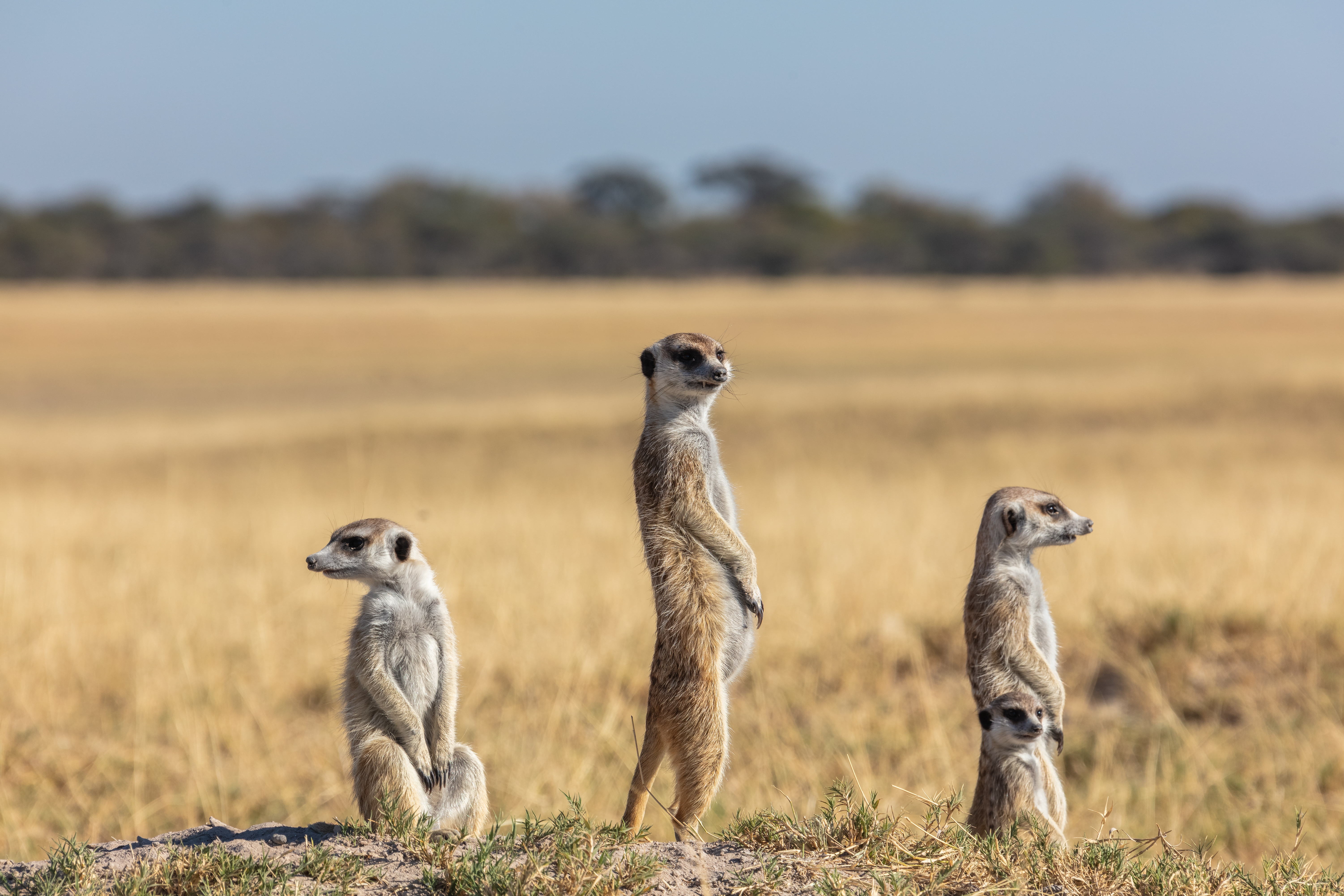 Meerkats (Suricata suricatta), Makgadikgadi Pans National Park, Botswana